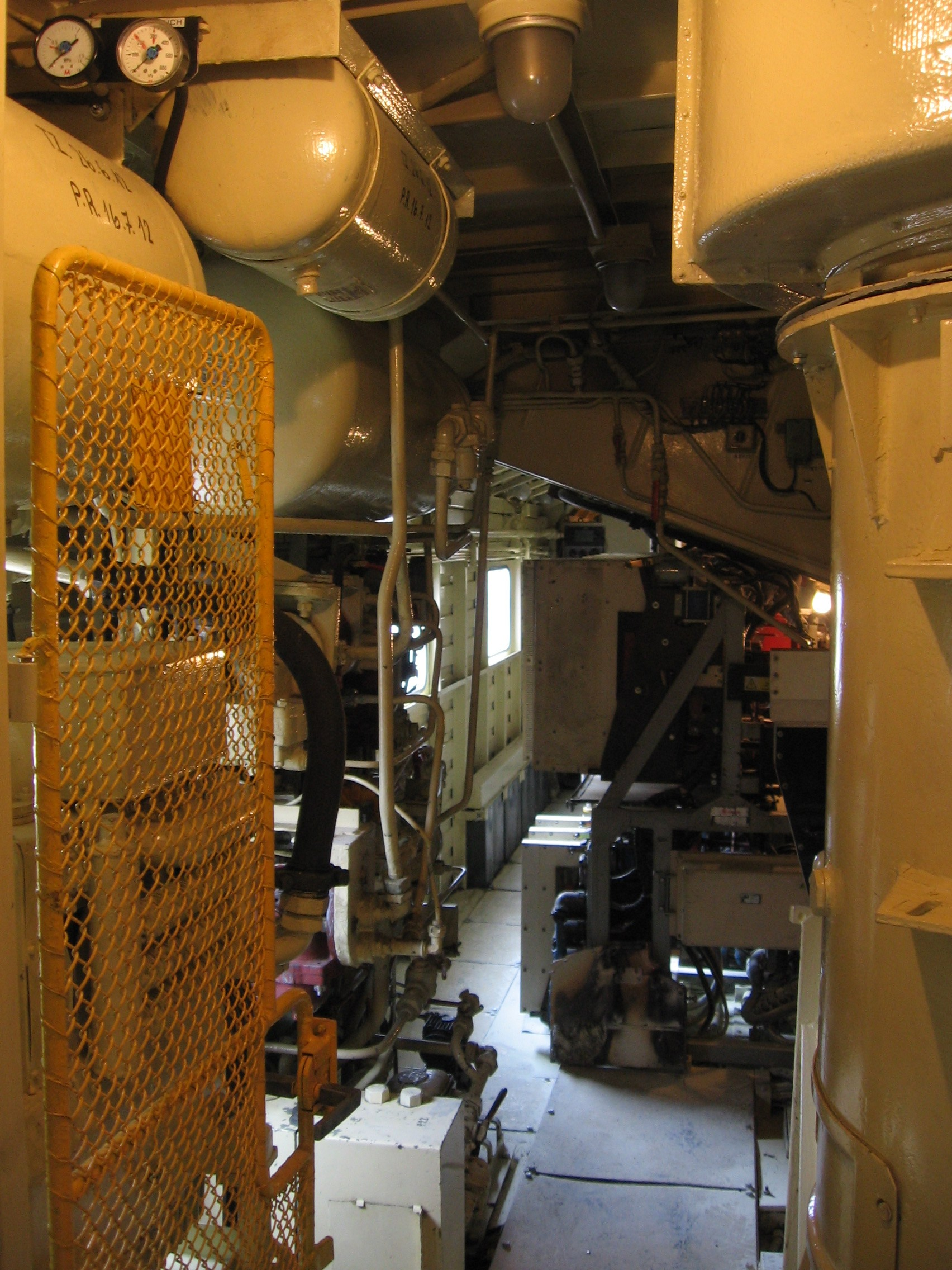 151.012 ČD - machinery room